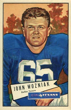 American football player John Wozniak (American football) on a 1952 Bowman Large card.